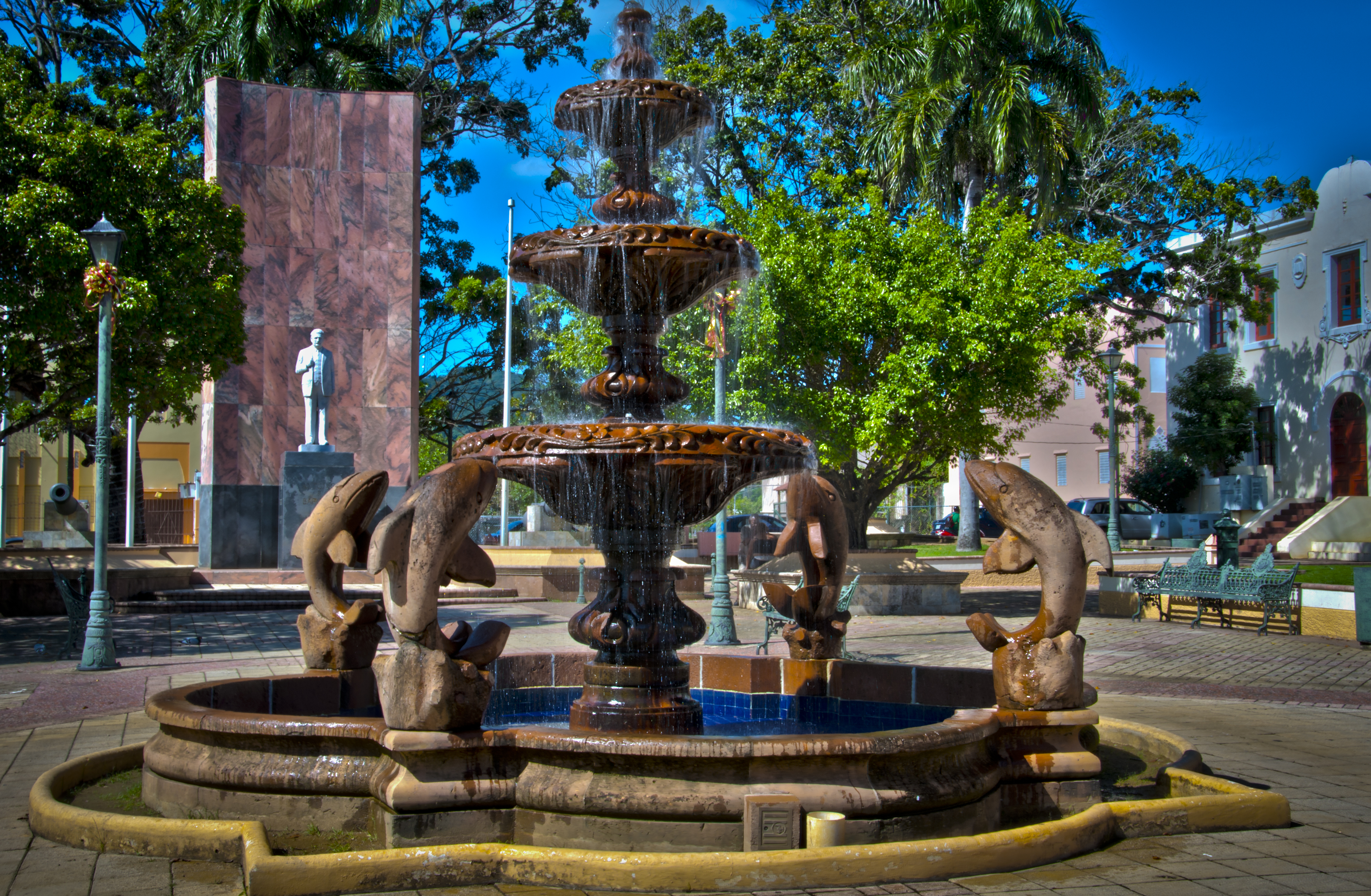 Water fountain in Fajardo's plaza (Puerto Rico)